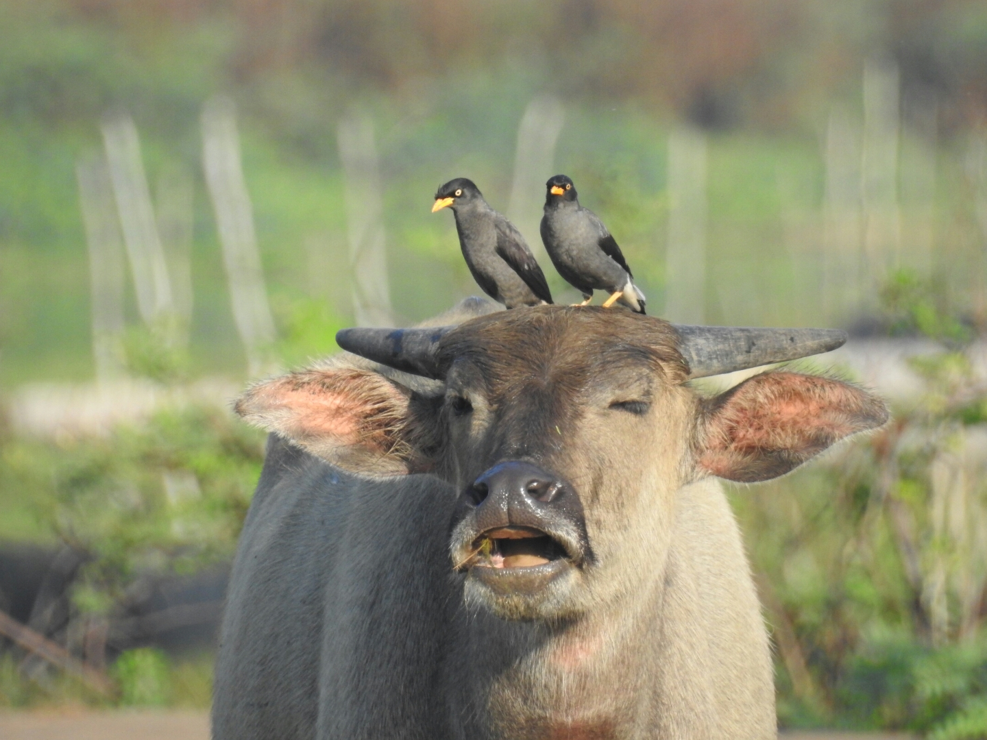 symbiotic mutualism is an interaction between two mutually beneficial living beings of both sides. Starlings usually attacked buffalo body to look for lice that are in his skin. Starlings benefit because they can eat ticks for free, while the buffalo gets the benefit because itching caused by ticks can be slightly reduced.